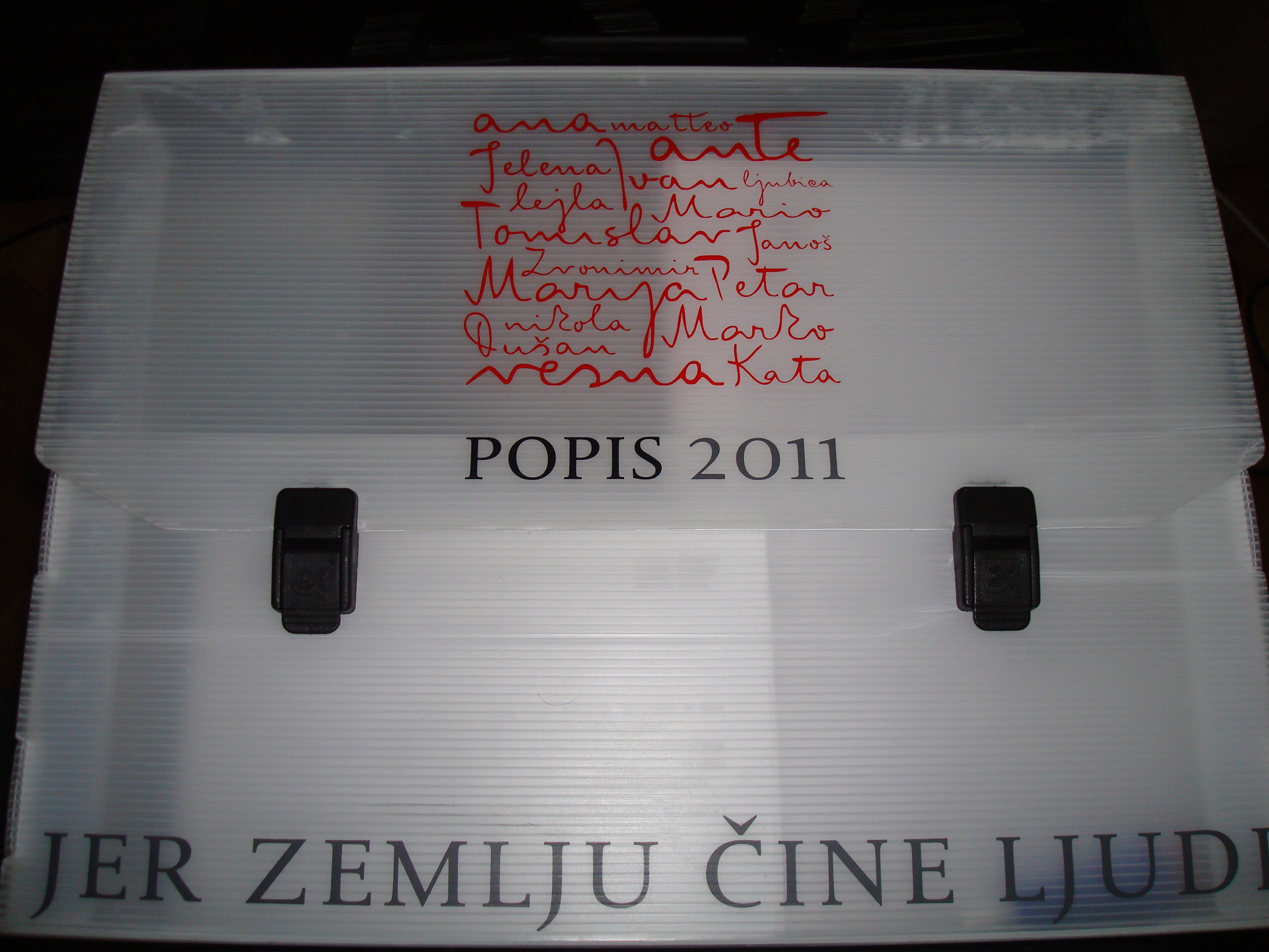 A briefcase containing documents used for the 2011 census in Croatia, which spanned a period of 28 days from April 1 until April 28.